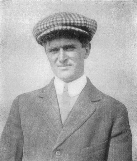 Lincoln Beachey, an early U.S. aviator.